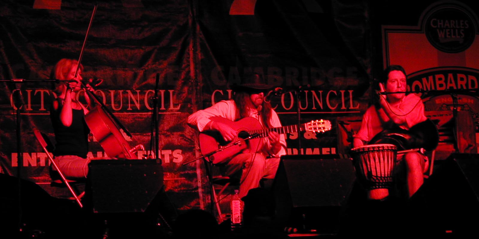 Wild Willy Barrett at the 2003 Cambridge Folk Festival (in the club tent). 2003/08 by William M. Connolley. Center: WWB. Left: Mary Holland. Right: John Devine. Song: When I was a cowboy.